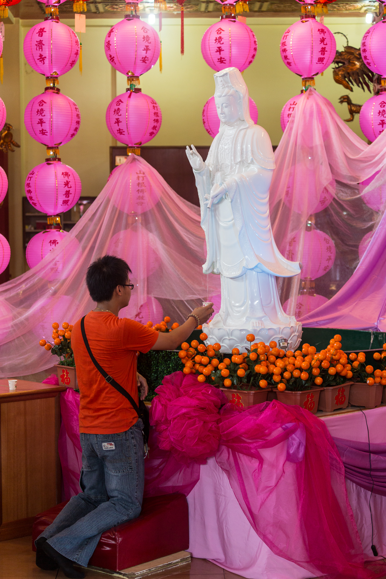 Sandakan, Sabah: Puu Jih Shih Temple (also known as Bu Tzi Shih or Puu Jih Syh Temple) during CNY 2013